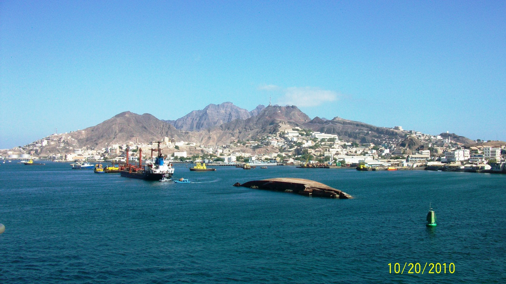 A panoramic view of the mountain and cityscape.